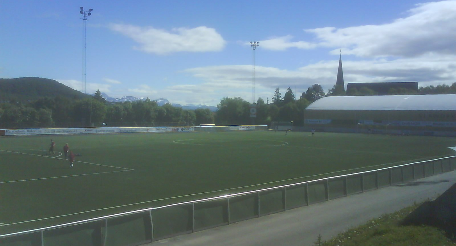 Harstad soccer stadium, Norway